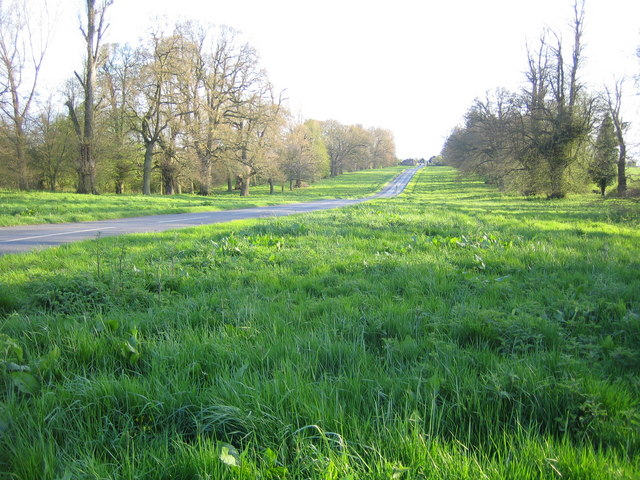 Stowe: Oxford Avenue. The approach road to Stowe from the south-west follows the old Roman Road between Bicester and Towcester, and is viewed here looking away from Stowe towards the Water Stratford Lodge.